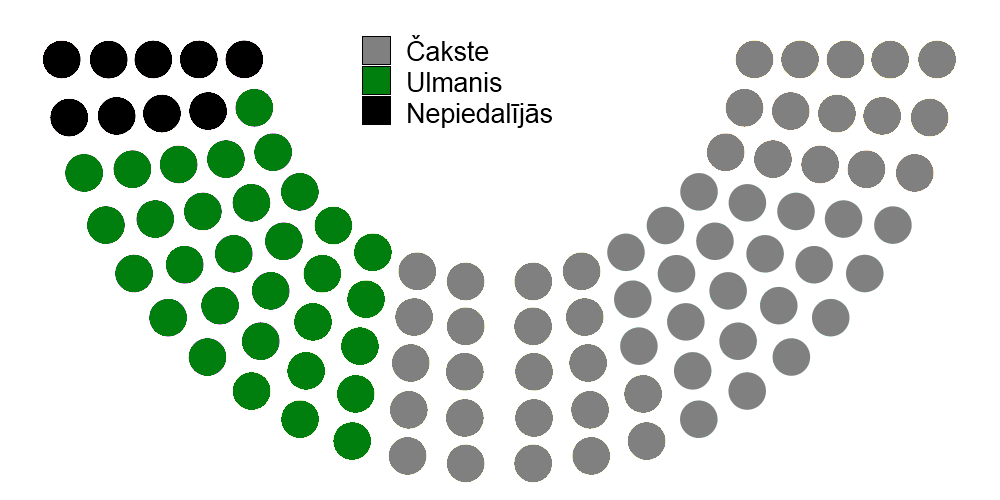 Graph showing the Saeima voting in Latvian presidential election, 1925.